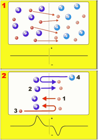 Doubler layer formation. Hotter electrons moving into a cooler plasma region cause a charge imbalance, resulting in a double layer that is able to accelerate electrons across it.